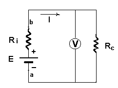 Schematic of positioning of a voltmeter in a circuit. NOTE: This image, created by PACO, was before uploaded to Wikipedia in Spanish, but I believe that now it is better in Commons.